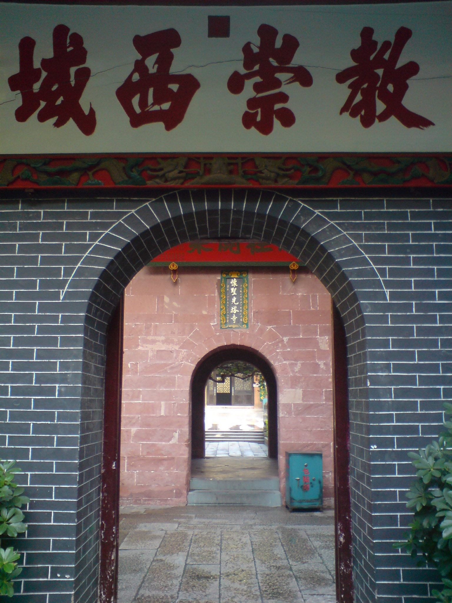 Inside Huaisheng Mosque, Guangzhou